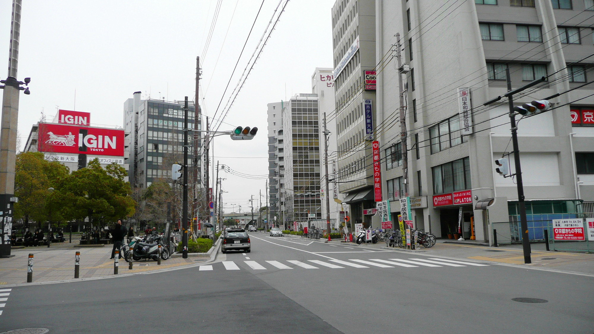 The vicinity of Shin-Osaka Station east entrance. / 新大阪駅東口駅前風景